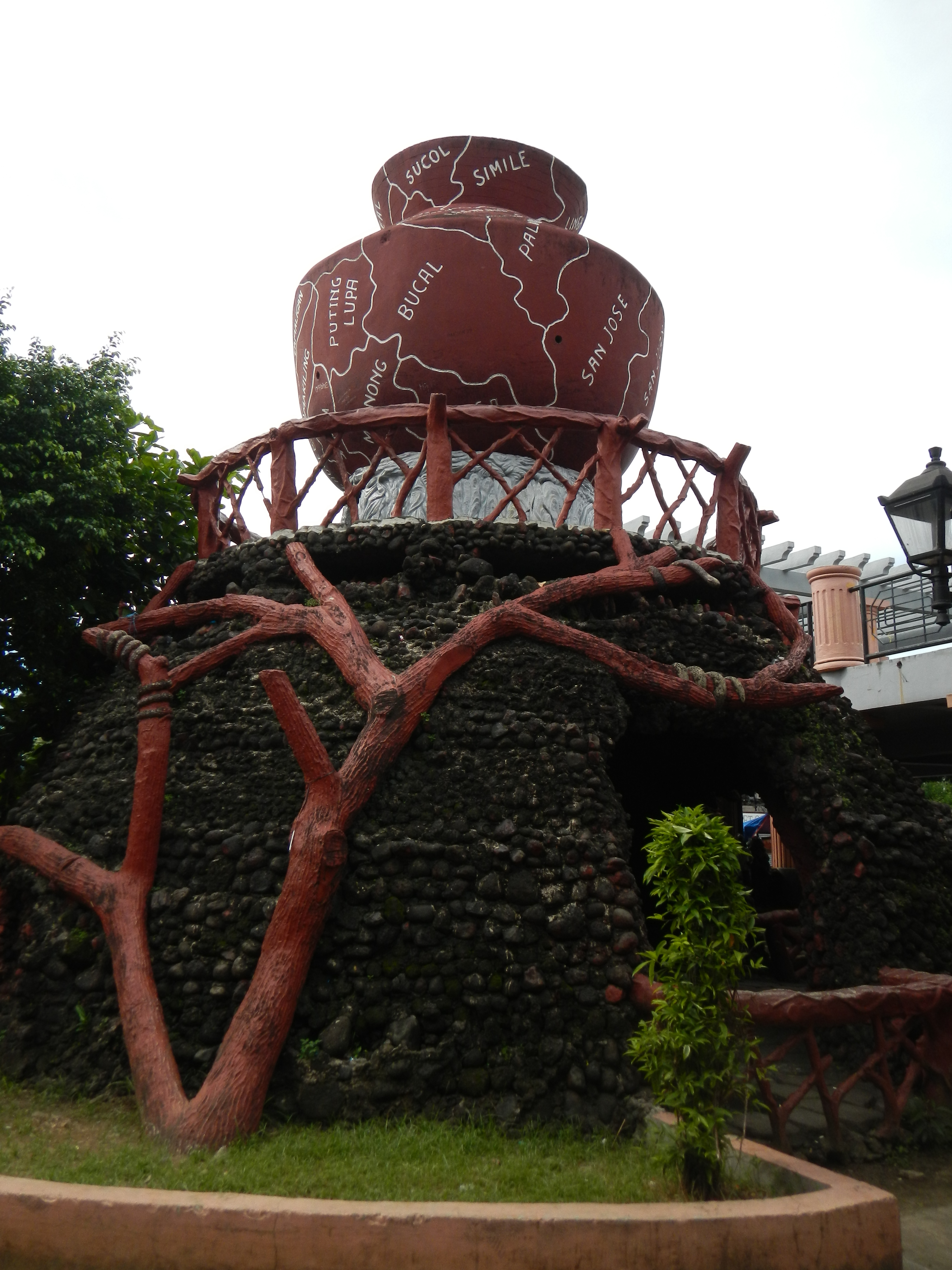 Banga/Pot of Calamba (Banga is a large pot that symbolizes the name of Calamba City. The name of Calamba City derived from the two words, "kalan" and "banga". The barangays in Calamba was inscripted around the pot. This pot is also known as Calambang; and the Rizal Shrine, Jose Rizal Ancestral House, Museum and Monument in Plaza Calamba: This is located at Calamba City Proper. Beside the St. John the Baptist Church, it is where José Rizal, the Philippines' national hero, lived before he was executed in Rizal Park. --- Calamba, Laguna[1] (NSCB: 043405000) is a component city of Laguna, [2] Philippines. It is the regional center of the CALABARZON region. Calamba became the second component city of the Laguna by virtue of Republic Act No. 9024, “An Act Converting the Municipality of Calamba, Province of Laguna into a Component City to be known as the City of Calamba.” R.A. 9024 was signed into law by President Gloria Macapagal-Arroyo on March 5, 2001, at the Malacañan Palace. [3] Coordinates: 14°11'15"N 121°6'32"E 2013 Election ResultsMayor: Justin Marc S.B. Chipeco (Nacionalista)[4] Vice Mayor: Roseller H. Rizal (Nacionalista) [5] geographical location: Laguna, Region 4, Philippines, Asia Geographical coordinates: 14° 12' 42" North, 121° 9' 55" East This place is situated in Laguna, Region 4, Philippines, its geographical coordinates are 14° 12' 42" North, 121° 9' 55" East and its original name (with diacritics) is Calamba. - José Rizal, [6] Website, New City Hall